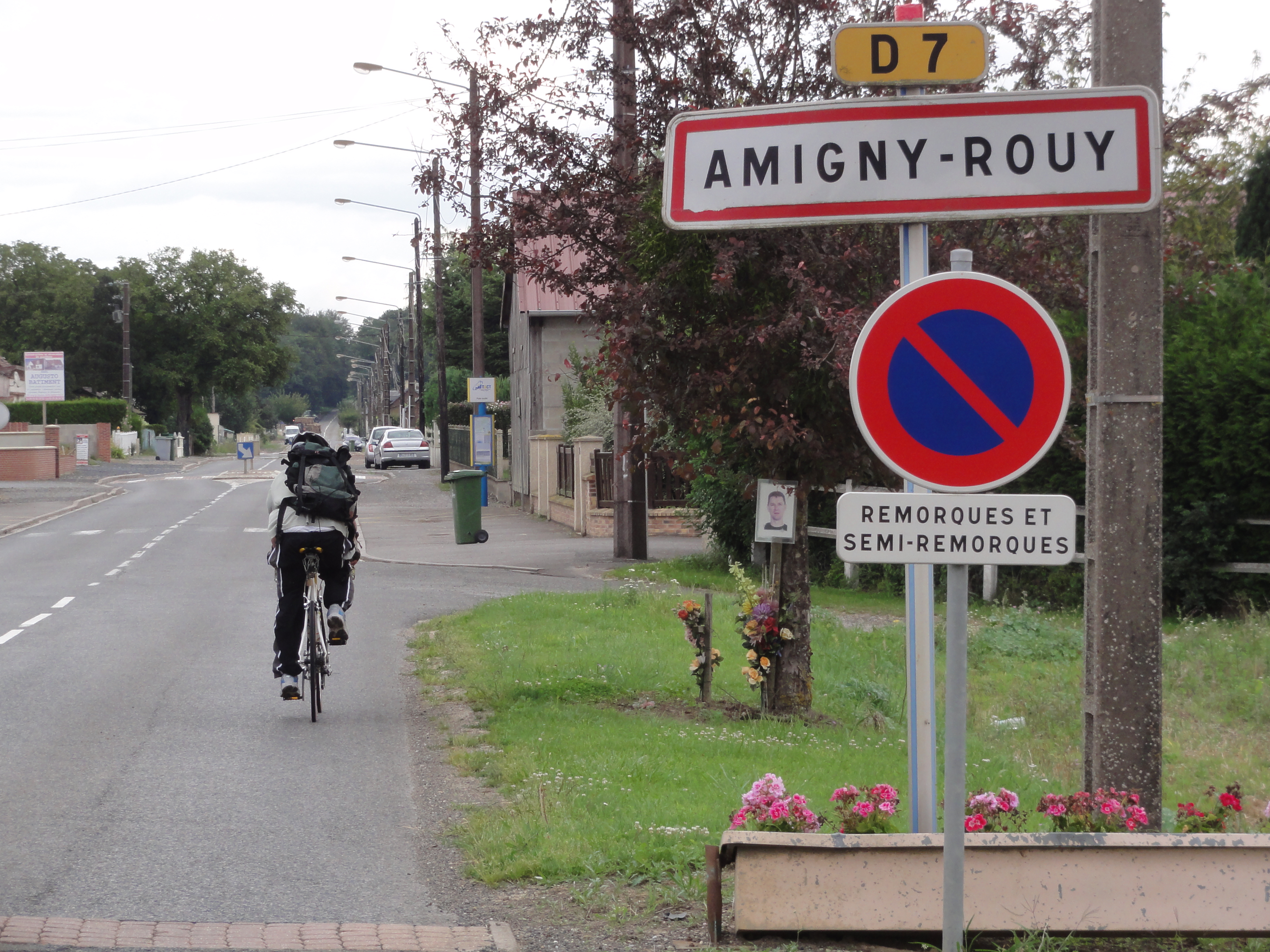 Amigny-Rouy (Aisne) city limit sign